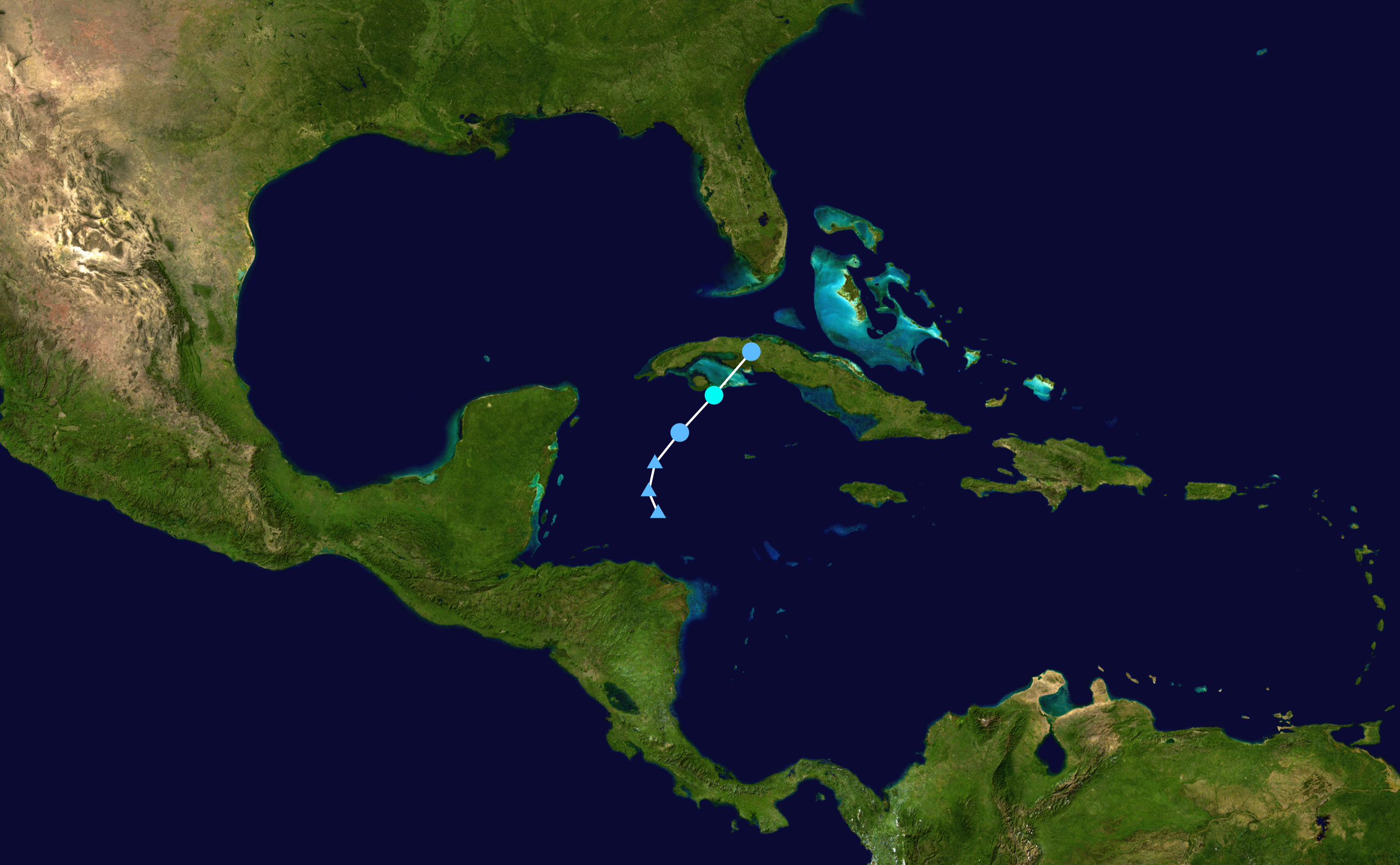 Track map of Tropical Storm Philippe of the 2017 Atlantic hurricane season. The points show the location of the storm at 6-hour intervals. The colour represents the storm's maximum sustained wind speeds as classified in the Saffir–Simpson scale (see below), and the shape of the data points represent the nature of the storm, according to the legend below. Saffir–Simpson scale Tropical depression≤38 mph≤62 km/h Category 3111–129 mph178–208 km/h Tropical storm39–73 mph63–118 km/h Category 4130–156 mph209–251 km/h Category 174–95 mph119–153 km/h Category 5≥157 mph≥252 km/h Category 296–110 mph154–177 km/h Unknown Storm type Tropical cyclone Subtropical cyclone Extratropical cyclone / Remnant low / Tropical disturbance / Monsoon depression